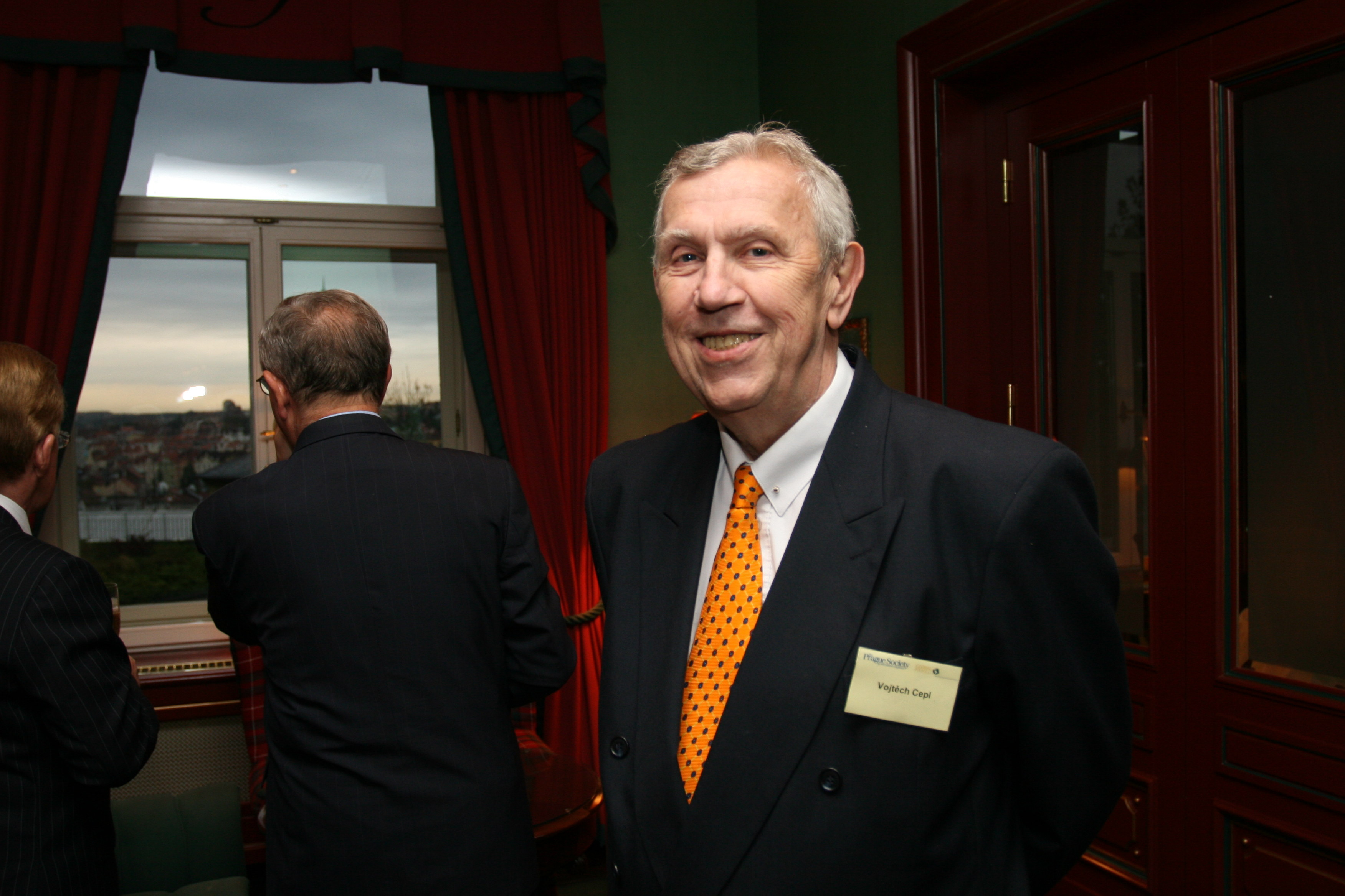 Vojtěch Cepl, Czech lawyer and one of the authors of the constitution of the Czech Republic